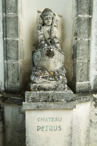 Château Pétrus